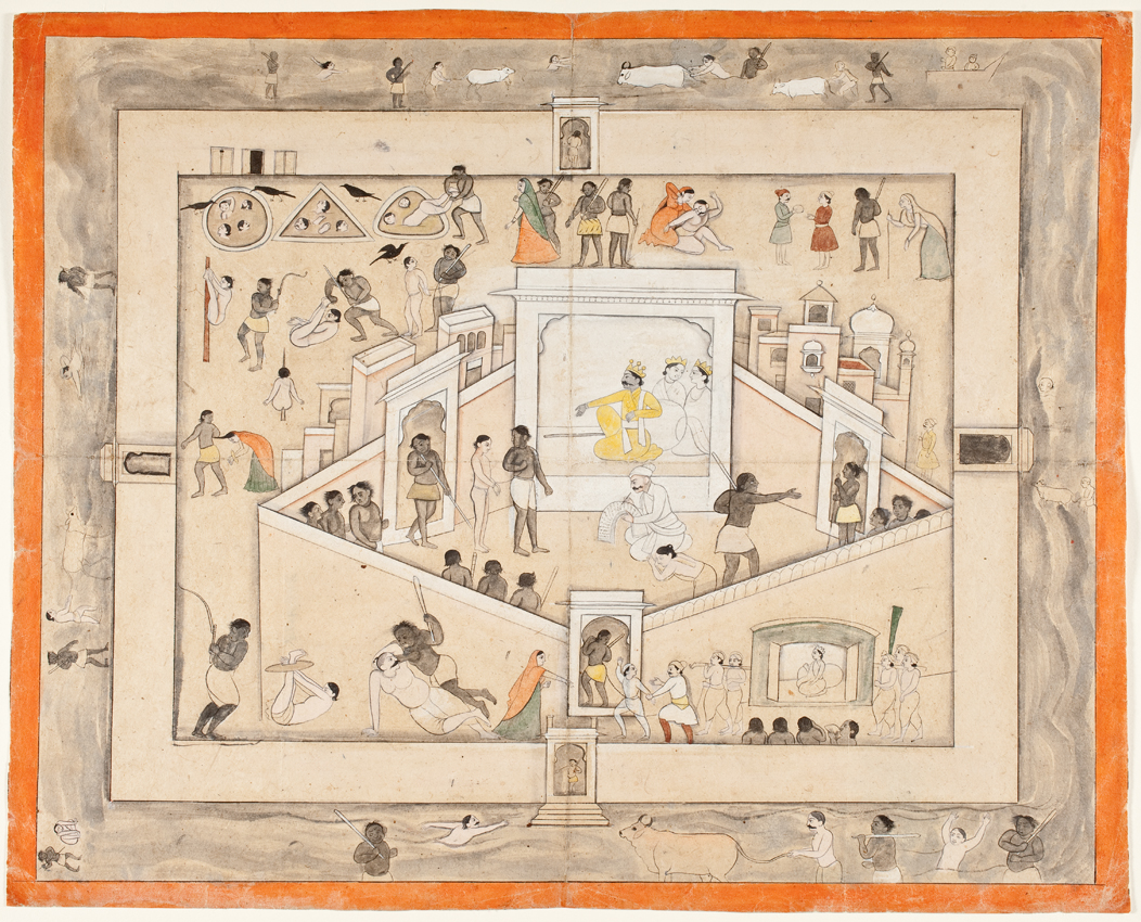 The Court of Yama, God of Death, circa 1800 Drawing, Ink and watercolor on paper, 19 1/4 x 23 7/8 in. (48.89 x 60.64 cm) Gift of Paul F. Walter (M.75.113.8) South and Southeast Asian Art Department.